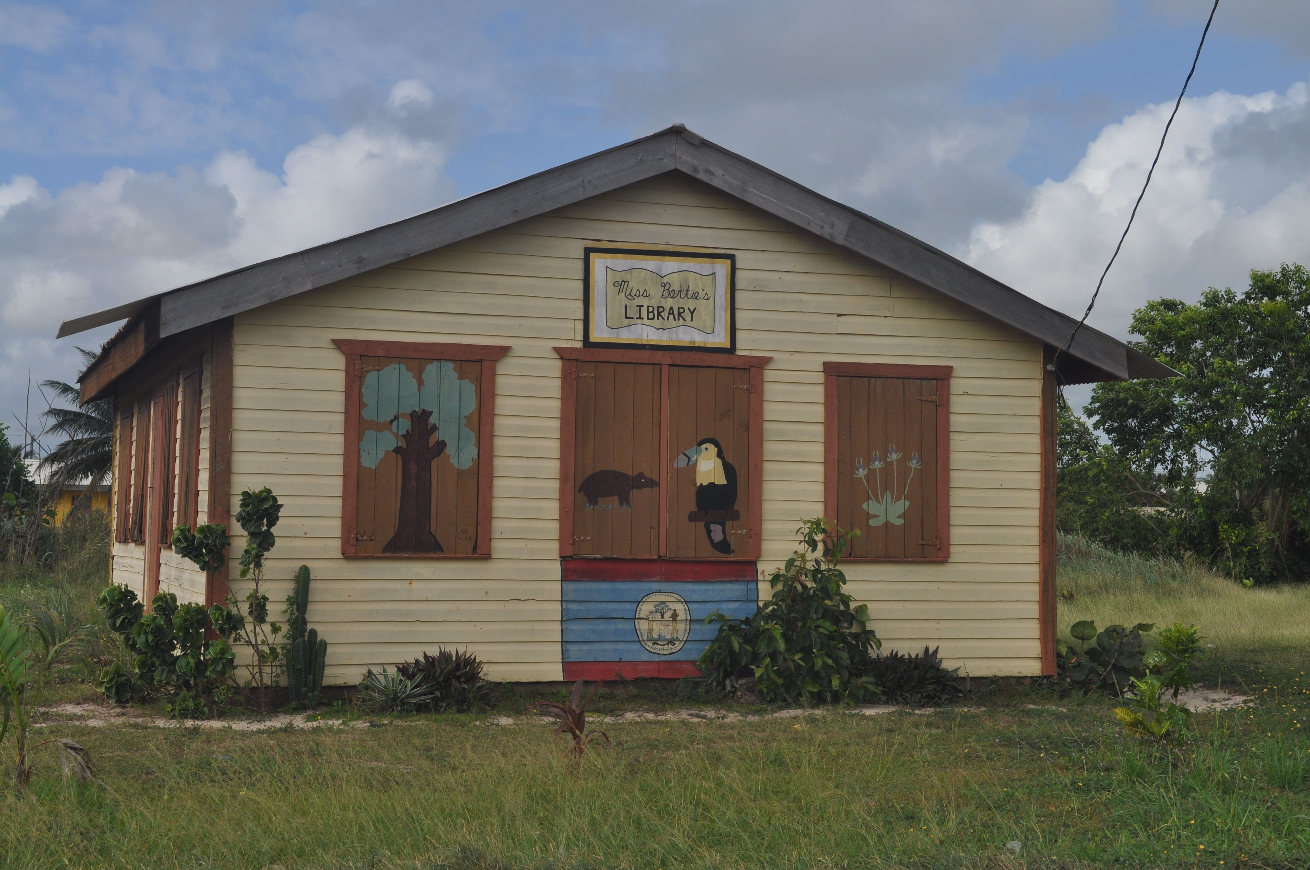 A library in Hokins (Belize)